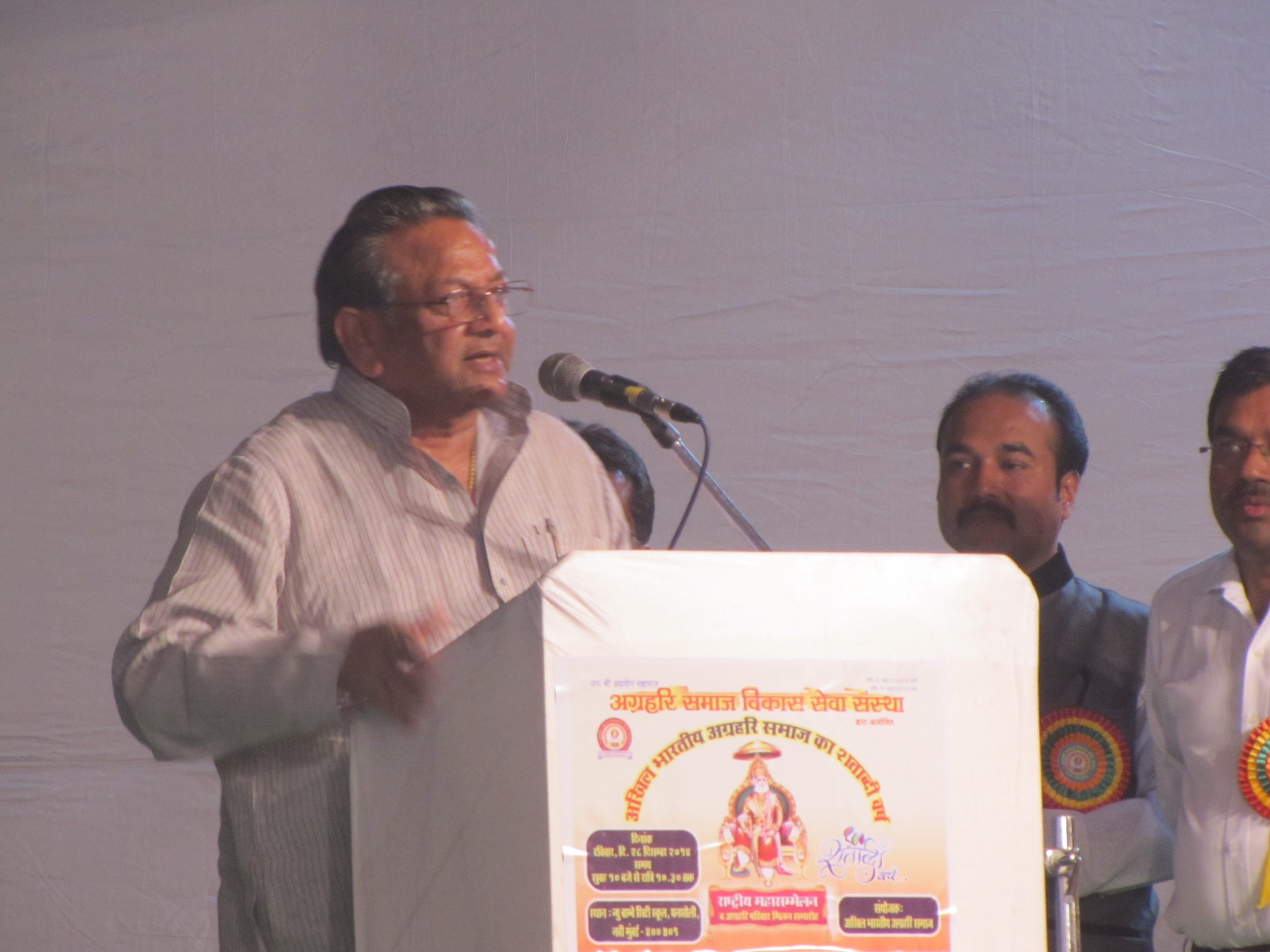 Shyama Charan Gupta in Agrahari Maha Sammelan on 28 December 2014, Ghansoli, New Mumbai